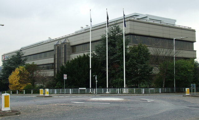 Vauxhall building On Osborne Road at Windmill Road an Gypsy Lane.